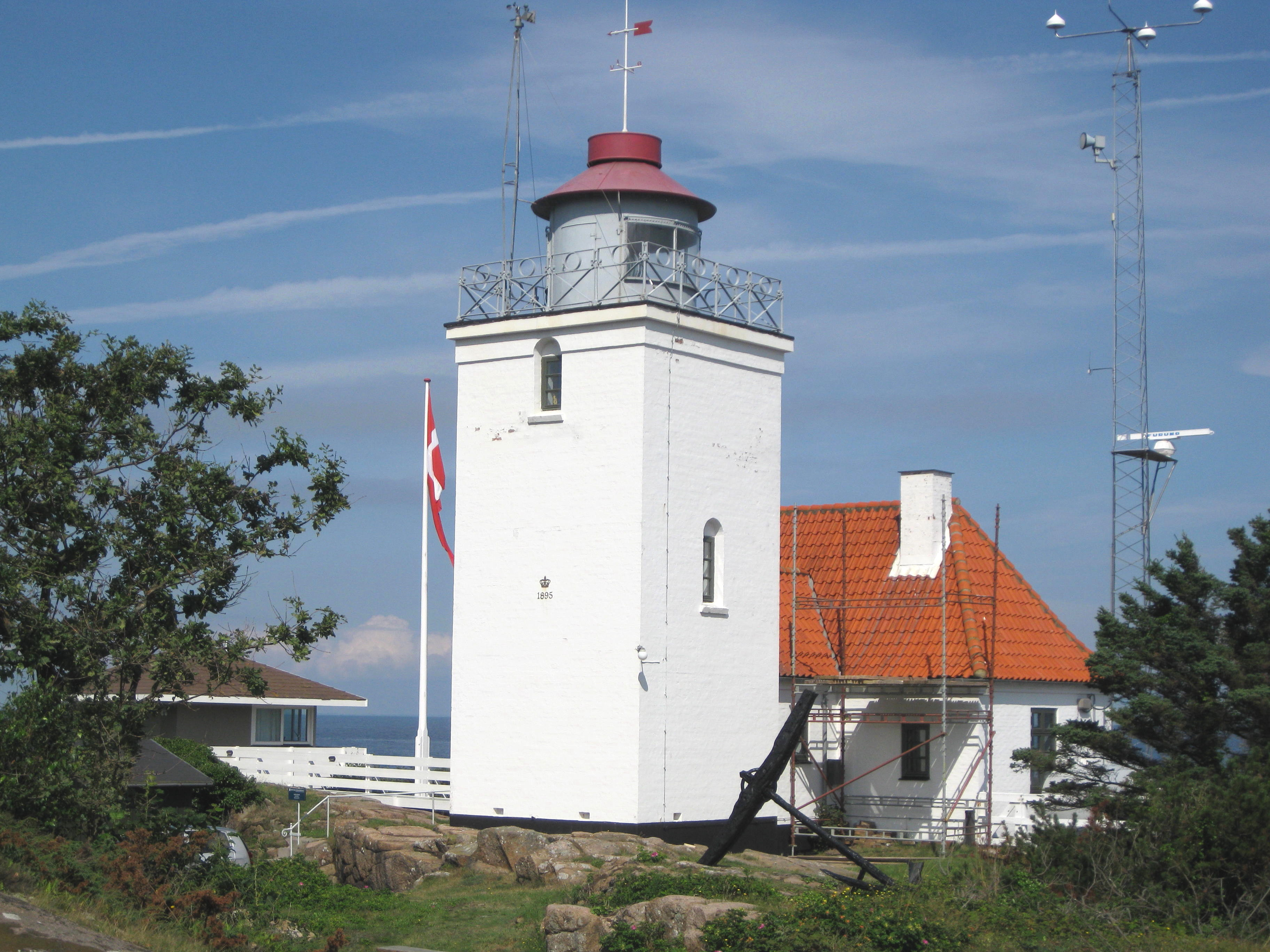 The lighthouse "Hammerodde Fyr" at the tongue of land "Hammer Odde" on the northern part of the island Bornholm. The island is located in east Denmark.